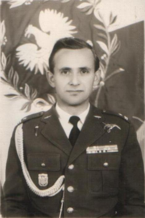 Dowódca 2 szkolnej eskadry mjr pil. Tadeusz Gawryjołek na tle sztandaru 64 PSz z Przasnysza, 1961